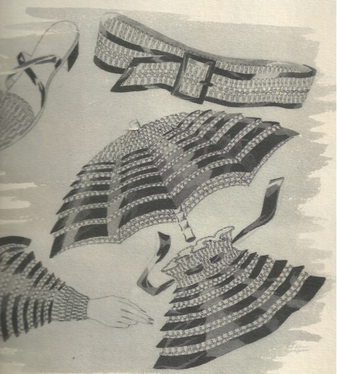 Summer accessories in Leather and Rafia by the House of VERA BOREA